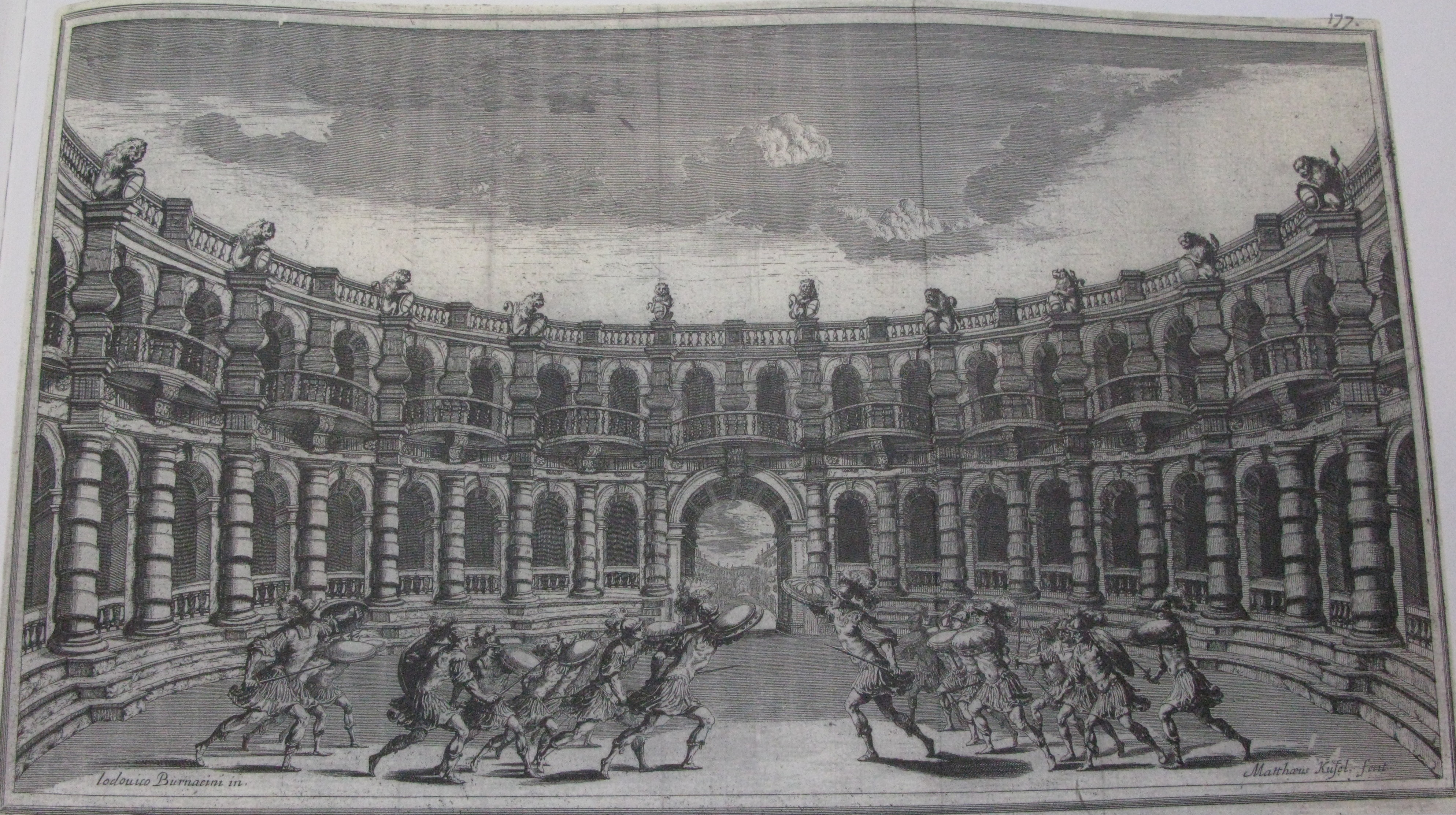 Amphitheatre